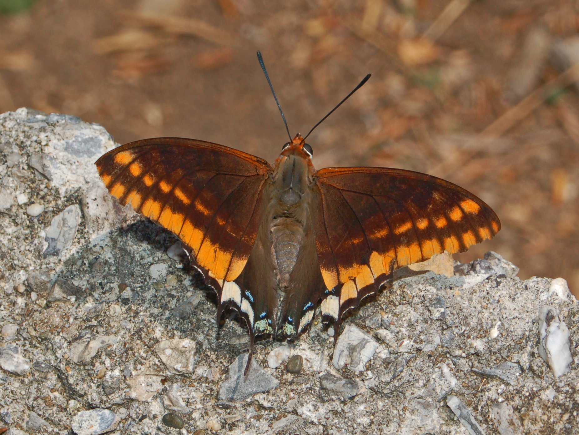 Nymphalidae - Charaxes jasius. San Bernardo, Genova, Italy